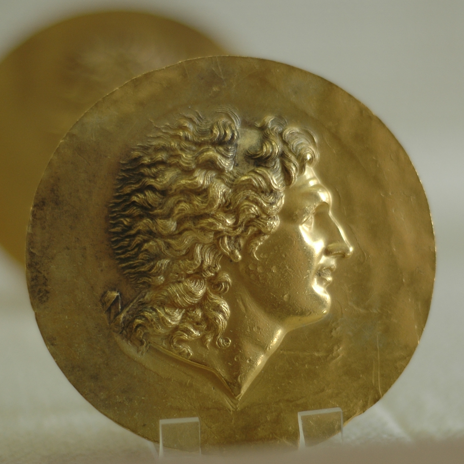 Niketerion (victory medallion) bearing the effigy of Alexander the Great, 2nd century AD, probably minted during the reign of Emperor Alexander Severus. Found in the Tarsus Treasury.